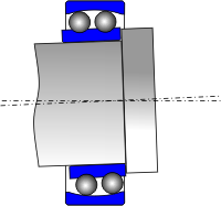 Self aligning ball bearing